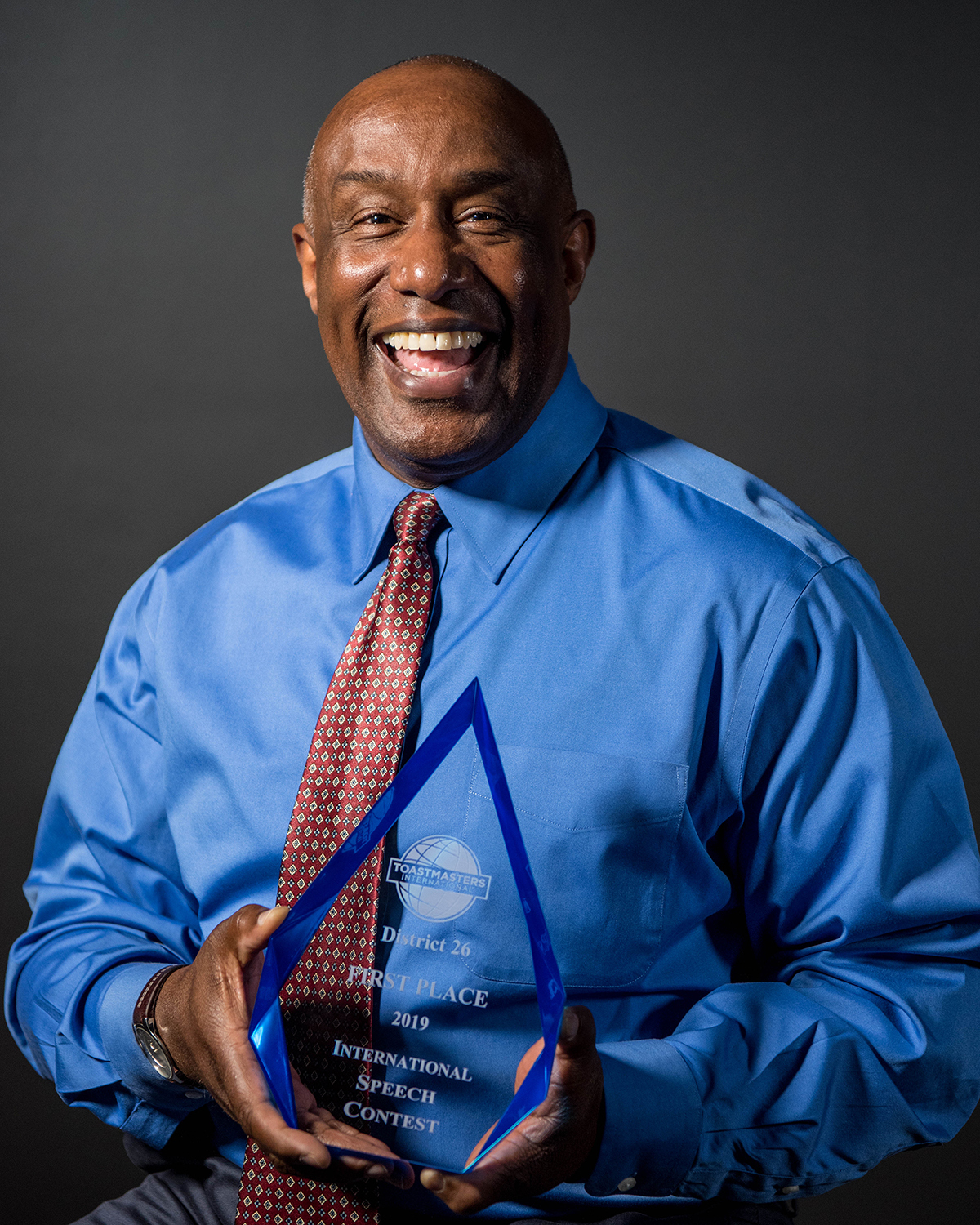 PETERSON AIR FORCE BASE, Colo. - Greg Williams, legislative liaison at Headquarters, Air Force Space Command, poses with his Toastmasters International District 26 first place trophy at Peterson Air Force Base, Colorado, May 9, 2019. (U.S. Air Force photo by Amber Whittington)